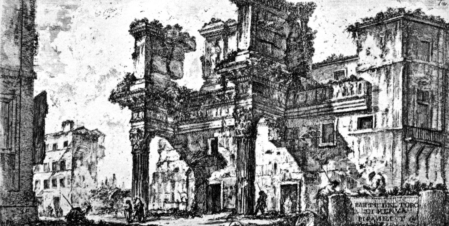 Giovanni Battista Piranesi (1720–1778) Alternative names Gian Battista Piranesi; Giovan Battista Piranesi; Piranesi; Gianbattista PiranesiDescription printmaker, architect and engraverDate of birth/death 4 October 1720 9 November 1778Location of birth/death Mogliano Veneto, Republic of Venice Rome, Papal StatesAuthority control : Q316307 VIAF: 2546239 ISNI: 0000 0001 2117 9992 ULAN: 500114965 LCCN: n79006767 NLA: 35424195 WorldCat creator QS:P170,Q316307